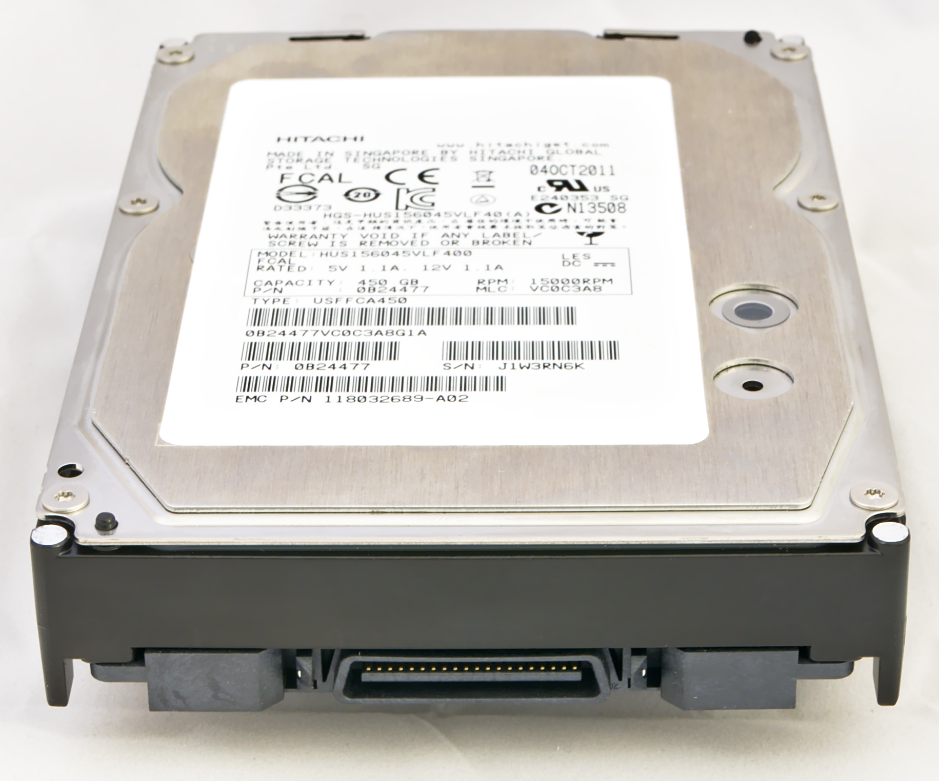 Fibre Channel Arbitrated Loop hard drive with SCA-2 (SCA-40) connector.